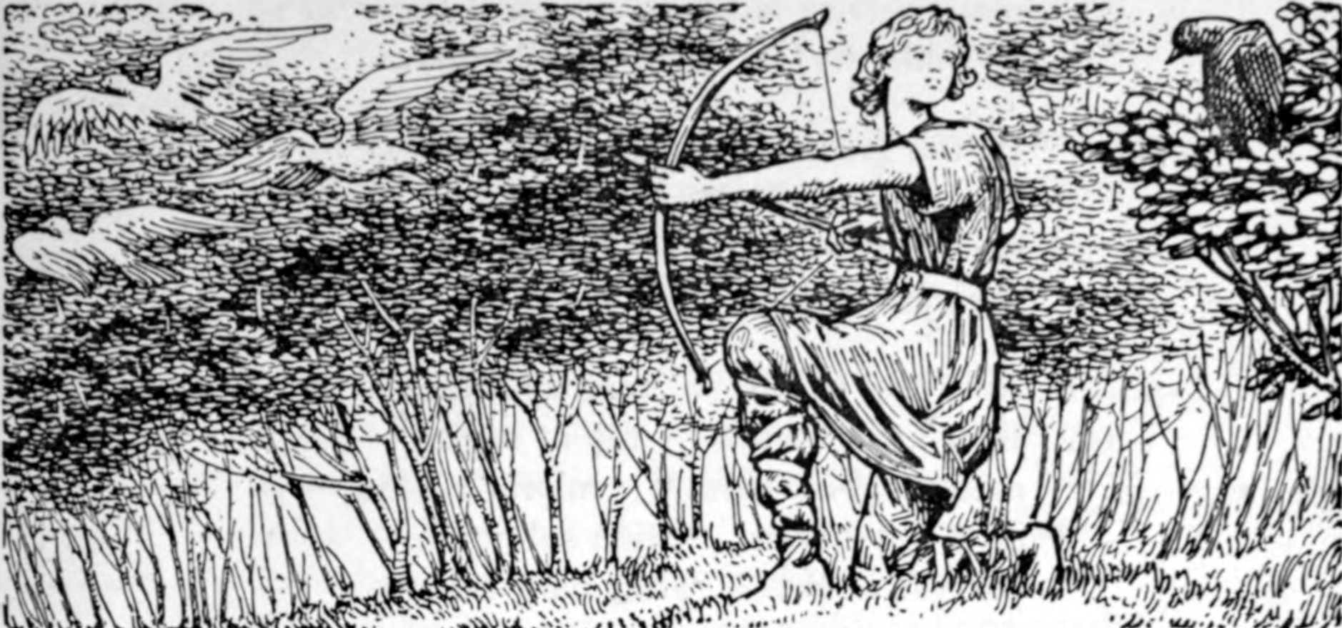 An illustration to Rígsþula. The list of illustrations in the front matter of the book gives this one the title The Crow warns Kon.